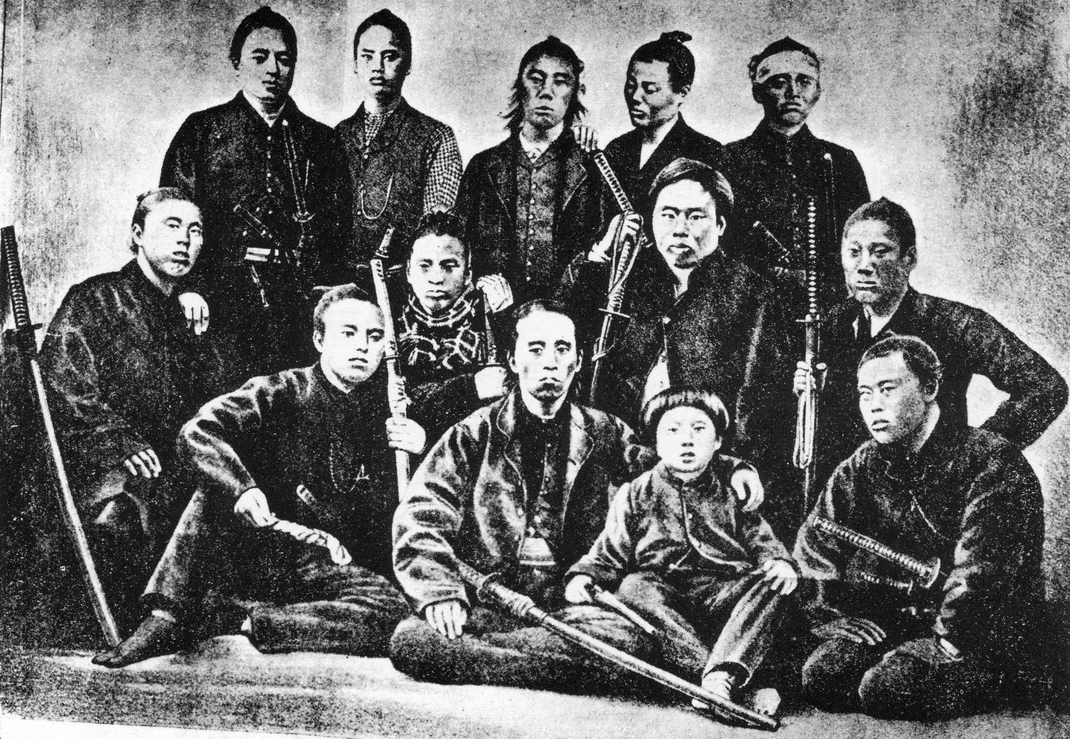 Officers of Jinshōtai. Front row (from left): Ban Gondayū, Itagaki Taisuke, Tani Otoi, Yamaji Chūshichi. Middle row (from left): Tani, Tani Moribe, Yamada Kikuma, Yoshimoto Heinosuke. Back row (from left): Kataoka Kenkichi, Manabe Kaisaku, Nishiyama, Kitamura, Befu.